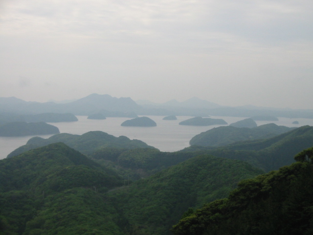 Asou bay, Tsushima